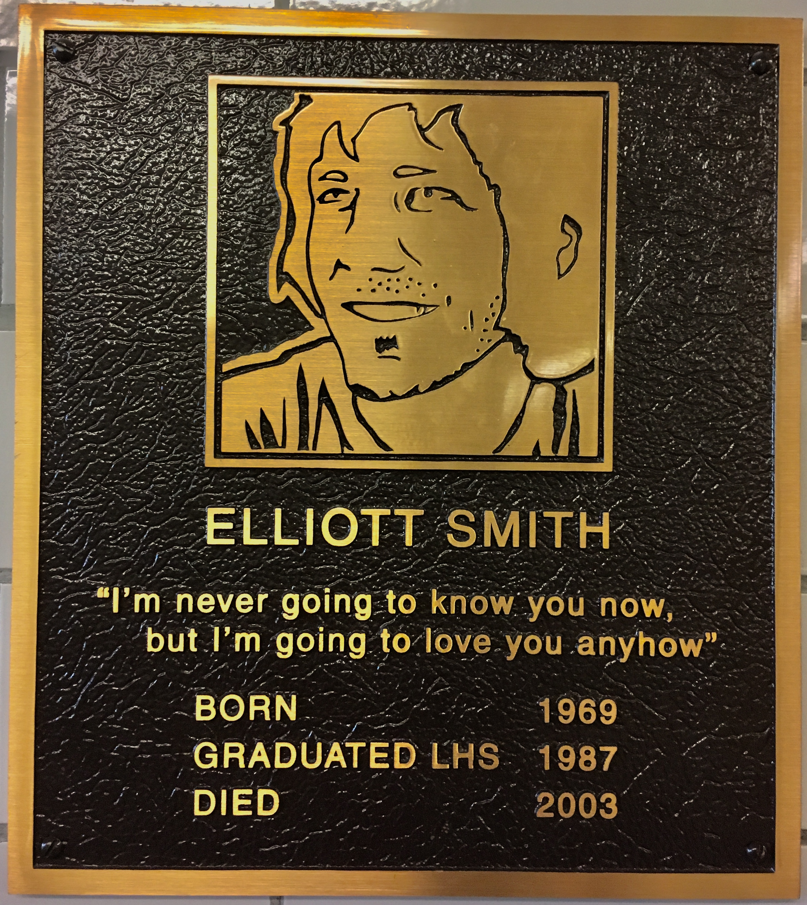 Memorial for Elliot Smith in his old high school in Portland, OR, US